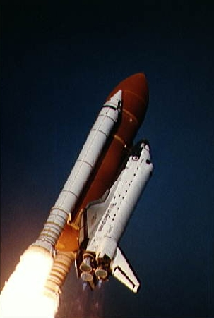 Space Shuttle Discovery launches on STS-53